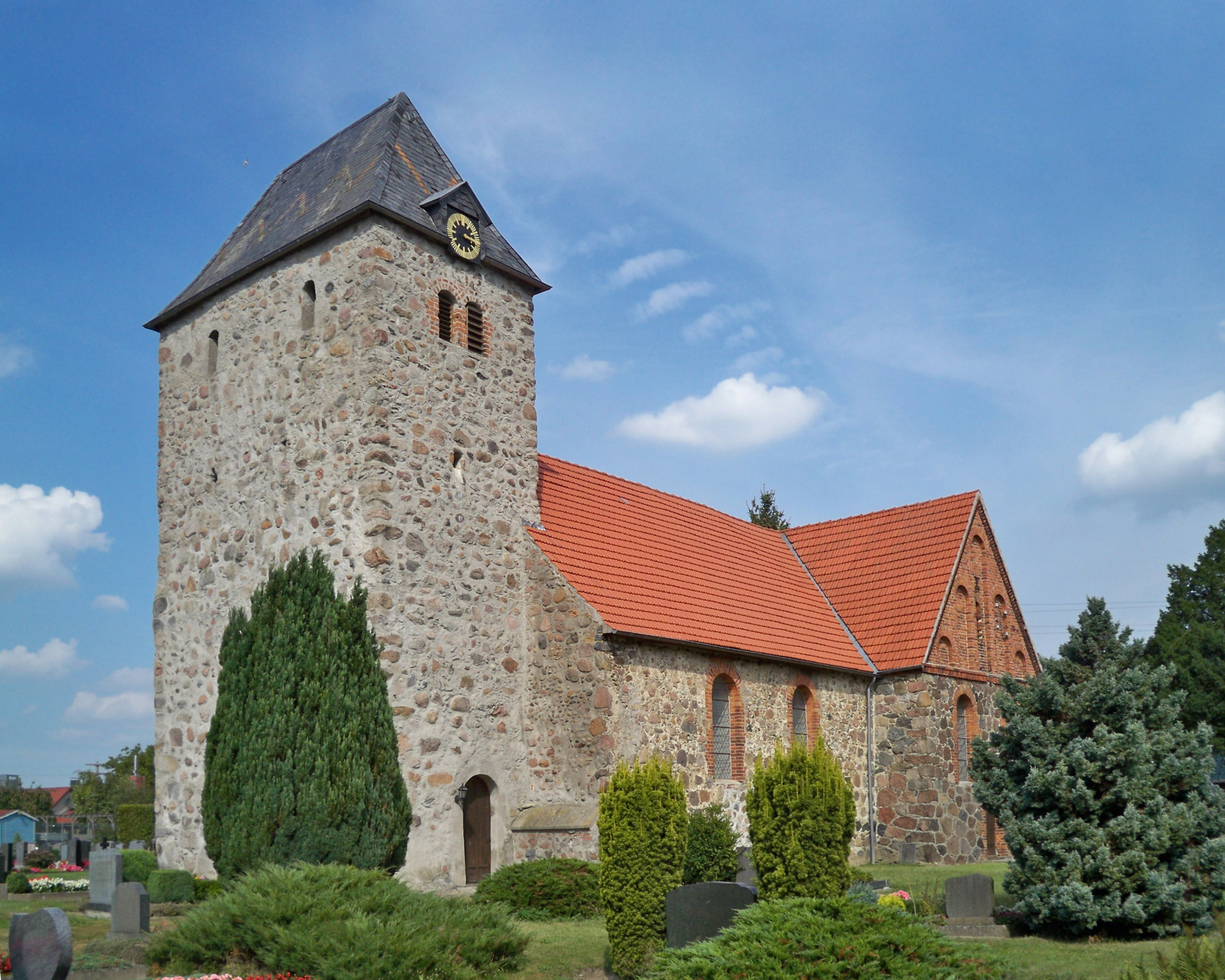 Ahlum, Rohrberg, Saxony-Anhalt, church